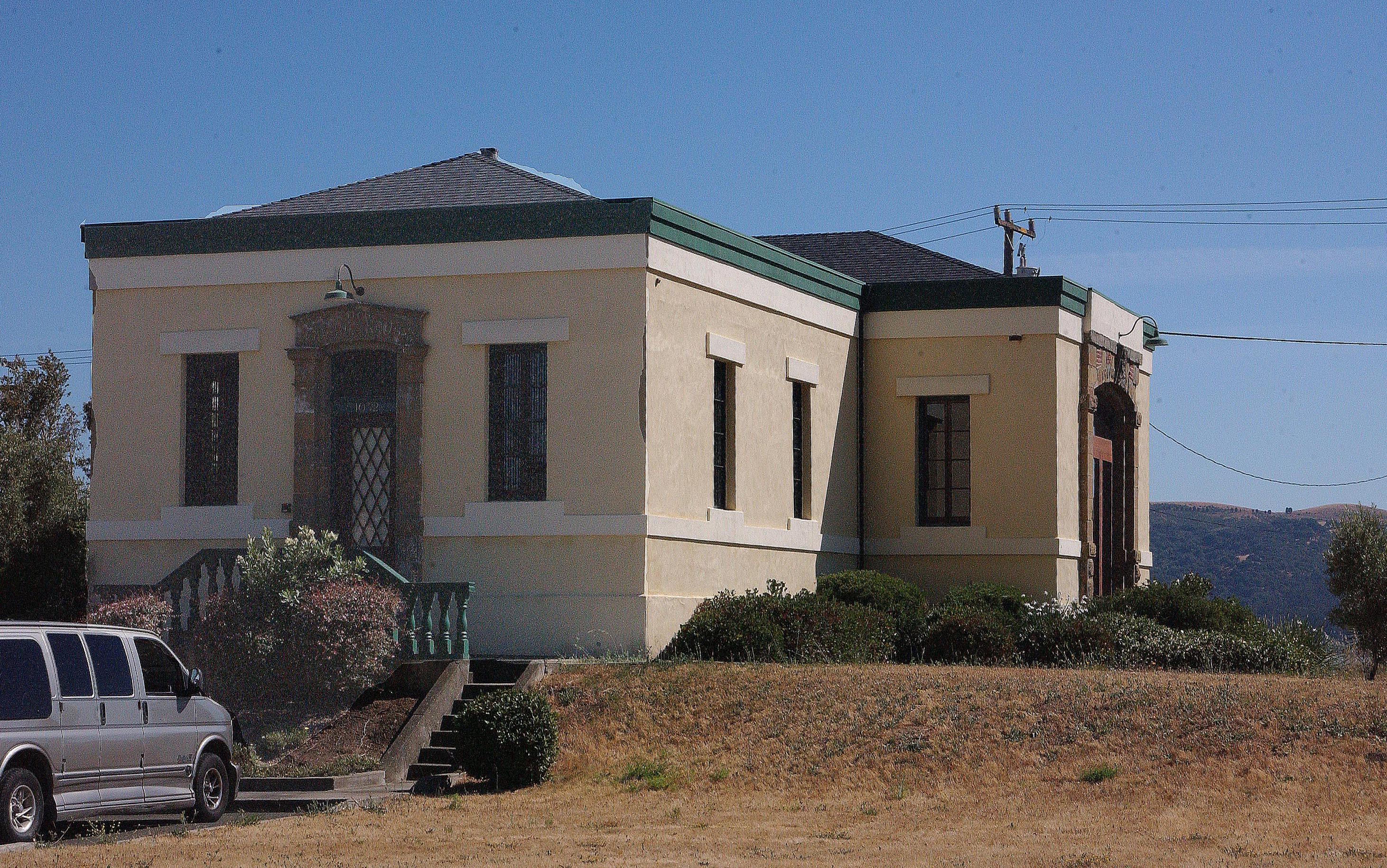 1872 GUARD HOUSE LOCATED ON THE GROUNDS OF THE ORIGINAL BENICIA ARSENAL. HERE IN 1852 A YOUNG LIEUTENANT WAS CHARGED AND FOUND GUILTY OF A MINOR INFRACTION. 20 YEARS LATER HE BECAME PRESIDENT OF THE UNITED STATES AS ULYSSES S. GRANT